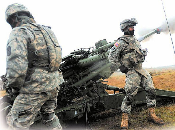 17th Field Artillery Brigade - JBLM